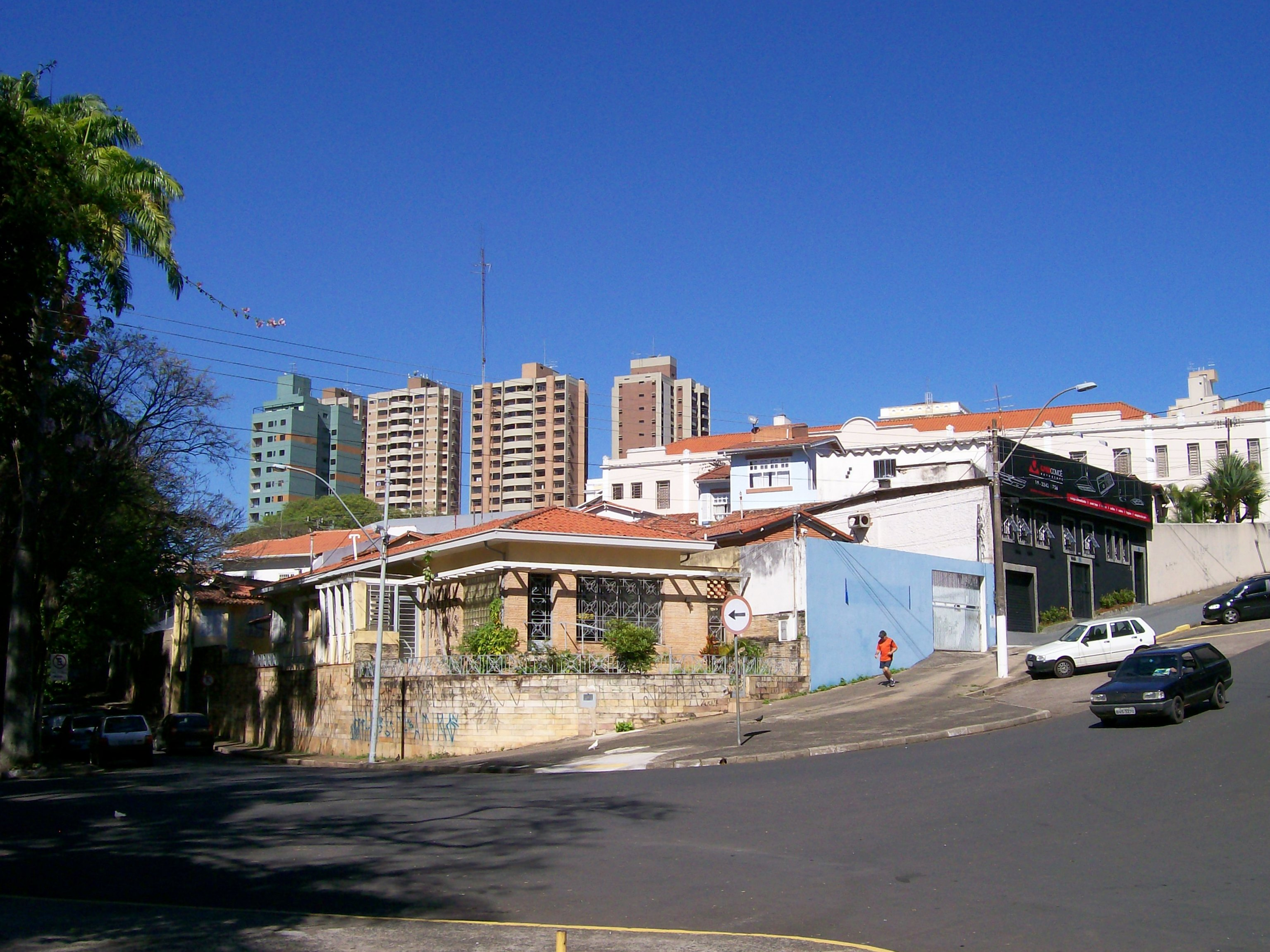 Borough of Bosque, next to Bosque dos Jequitibás's entrance